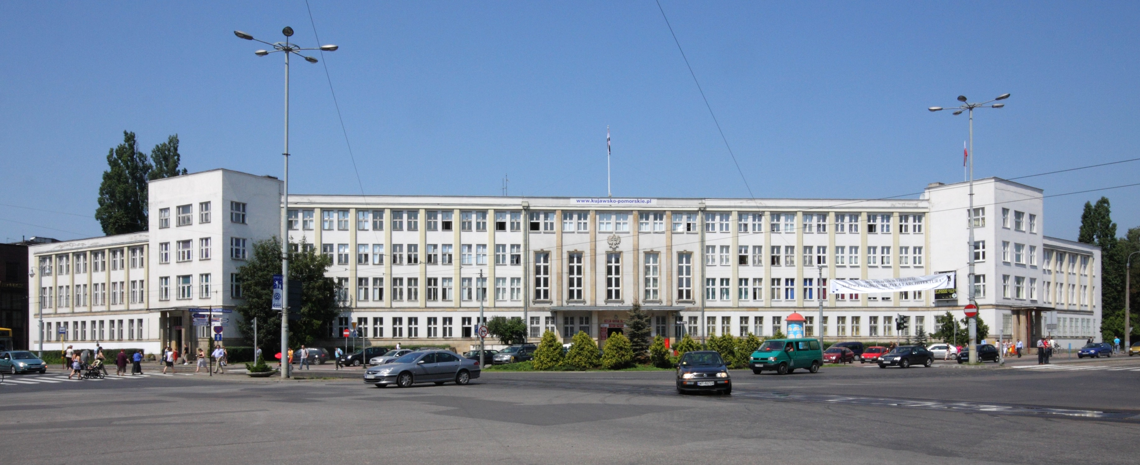 Toruń, Poland, Kuyavian-Pomeranian Regional Assembly building, dating back to 1927-1932, projected by Franciszek Krzywda-Polkowski, with changes by Stefan Cybichowski.